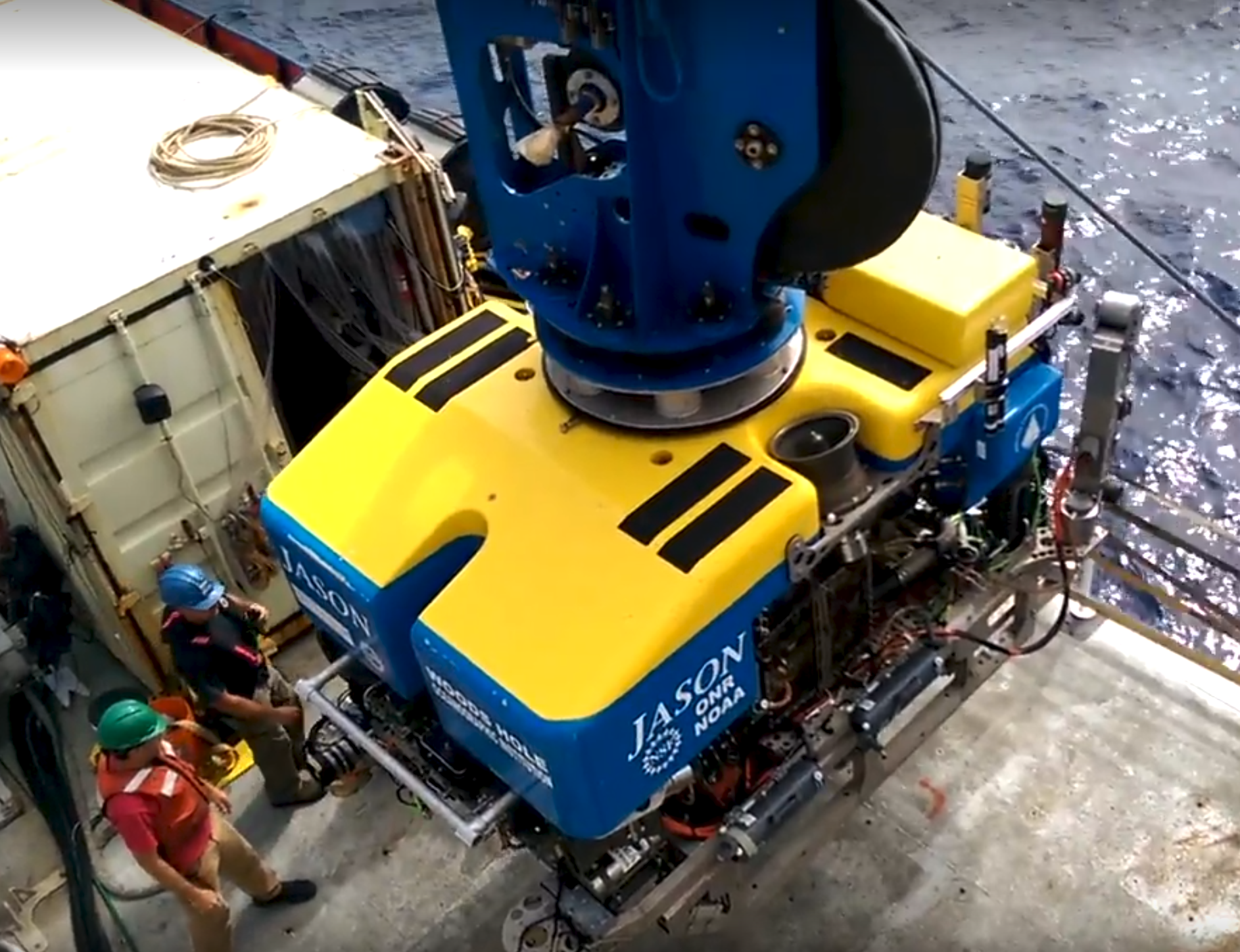 The ROV JASON prior to deployment at Axial Seamount off the coast of Oregon.